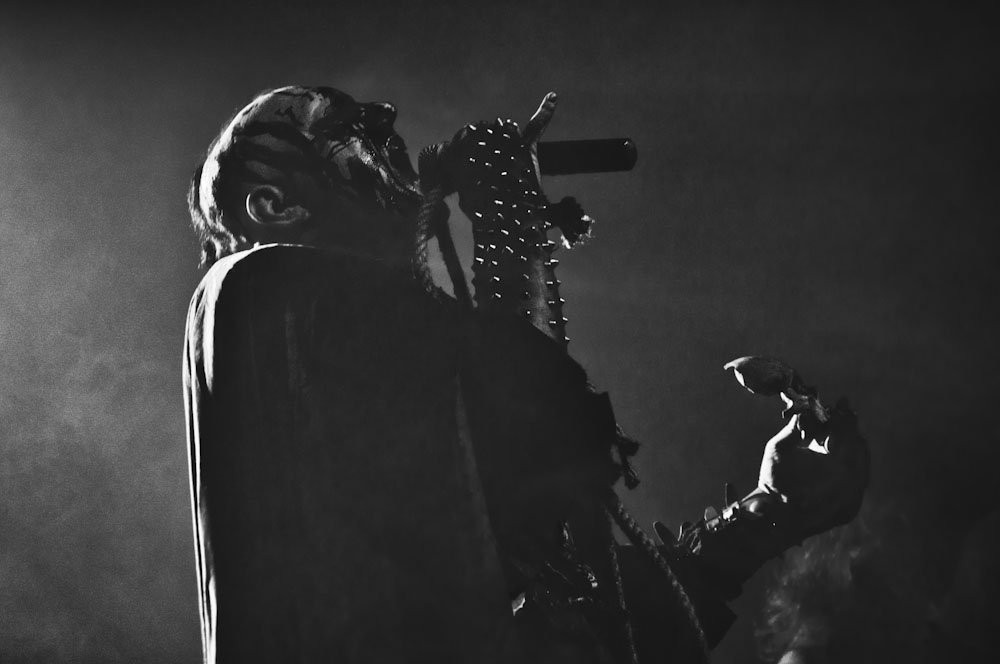 Mayhem live at Hole In The Sky 2011